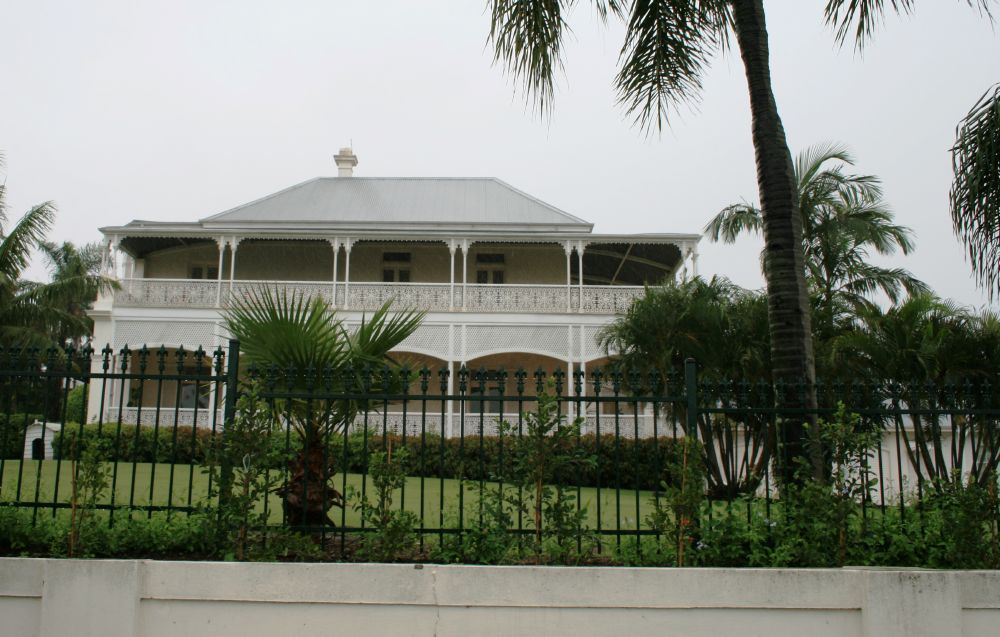 Picture of Cintra House